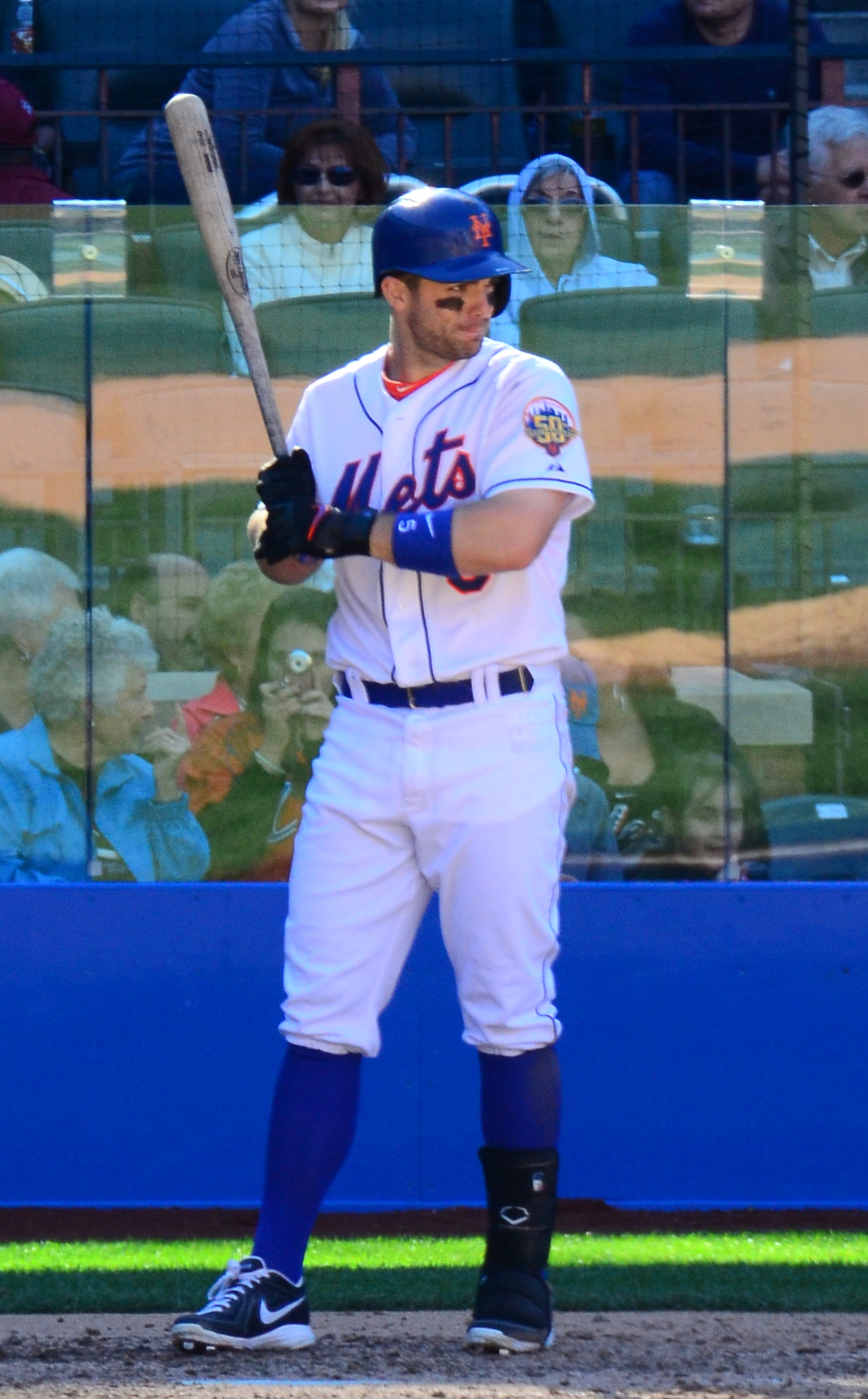 David Wright